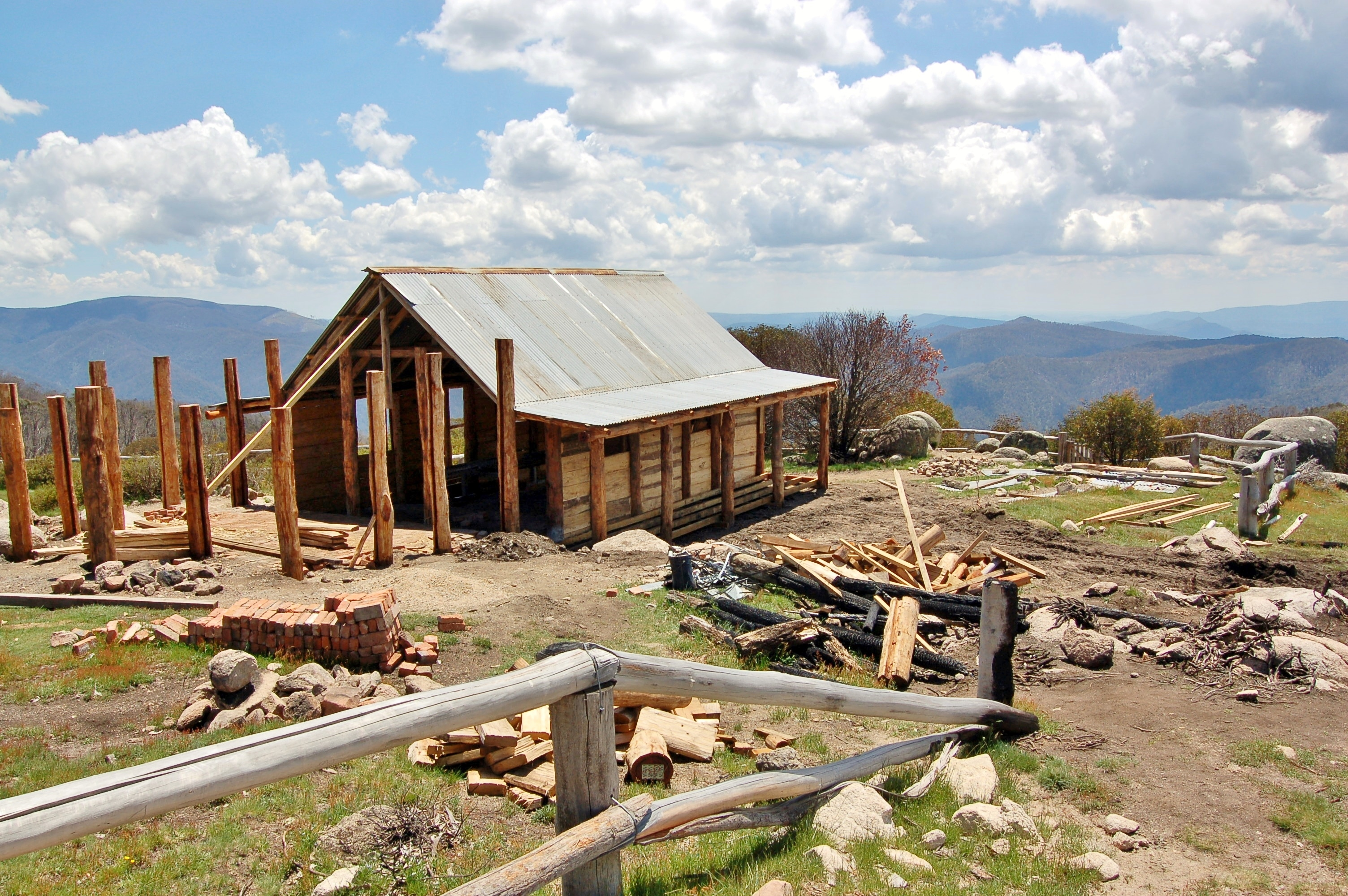 View of Craig's Hut, on Mount Stirling, in the high country of Victoria, Australia, under reconstruction after it was destroyed by the Eastern Victoria Great Divide bushfires on 11 December 2006.